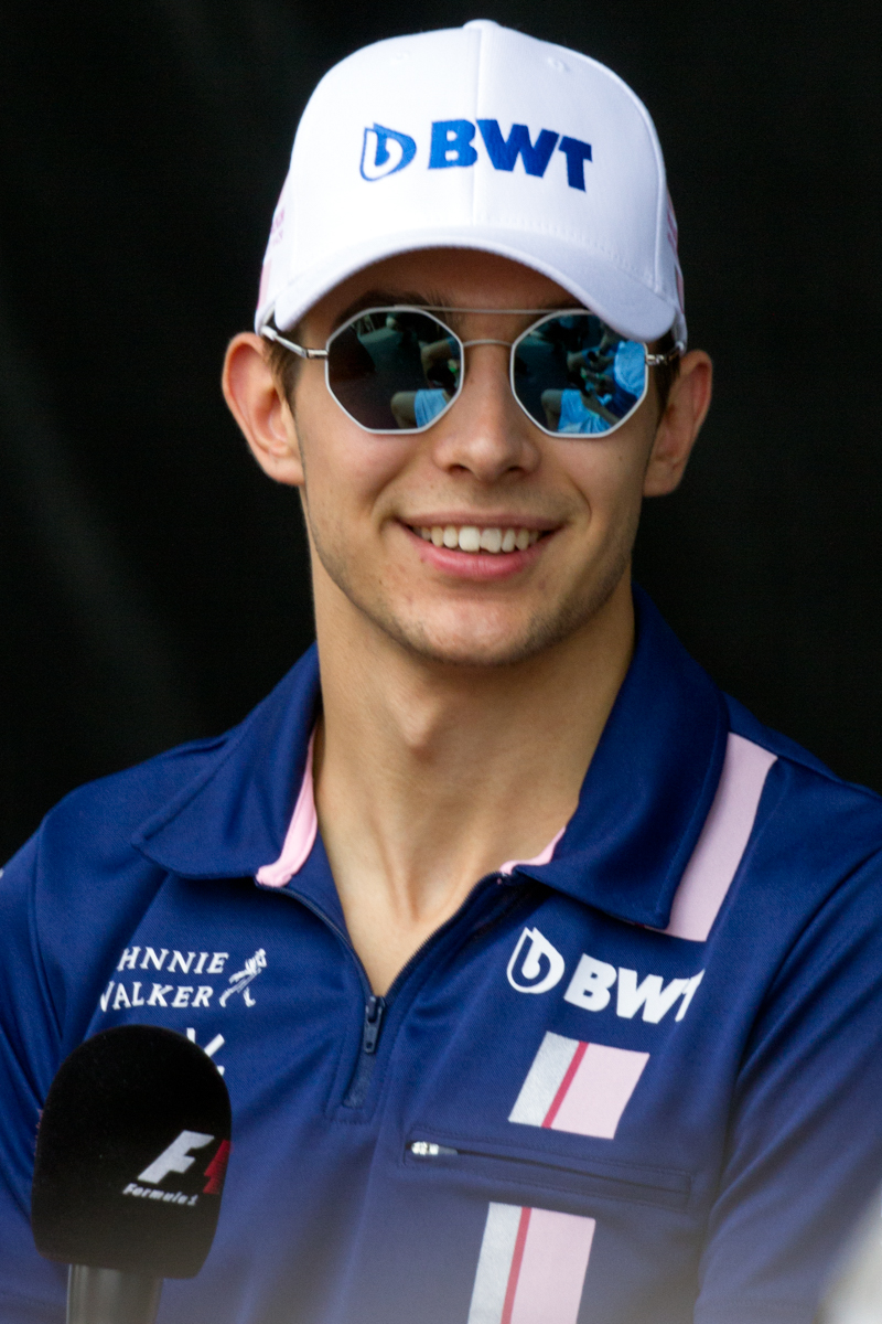 Formula One 2017 Rd.15 Malaysian GP: Esteban Ocon (Force India) at the fan meeting